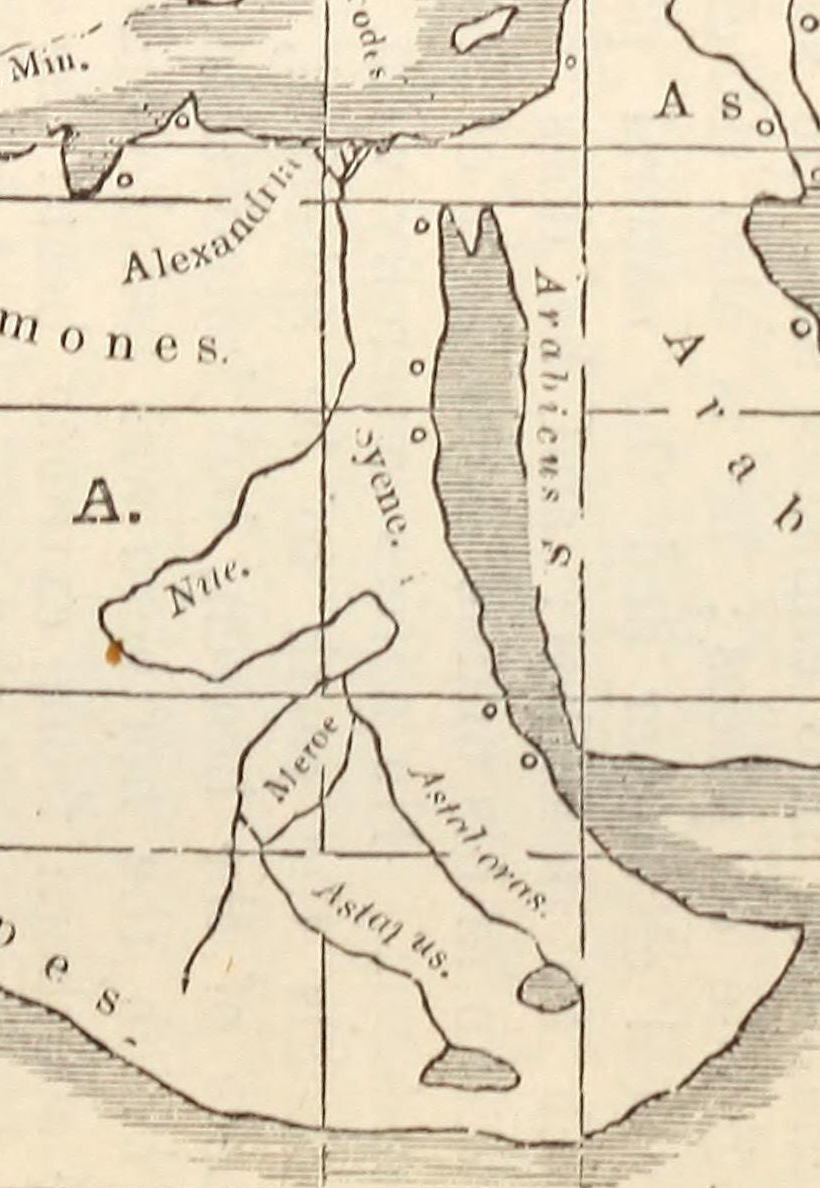 Egypt and Nubia according to Strabo, cropped from his reconstructed World Map.